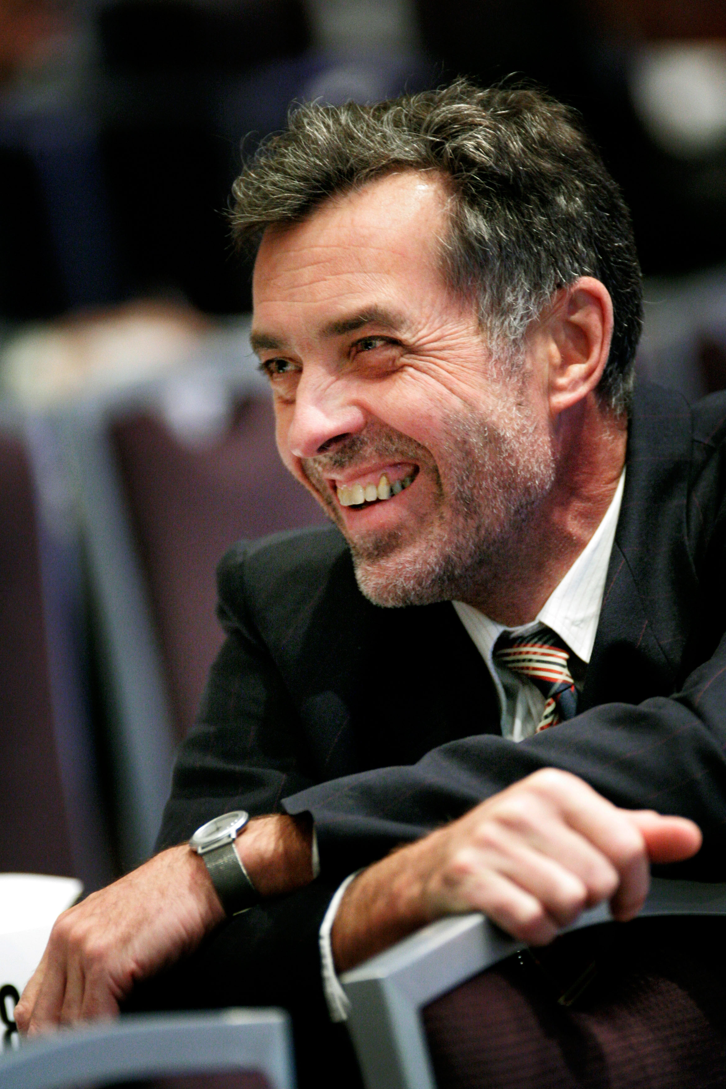 Jan-Erik Enestam, former goverment minister of Finland